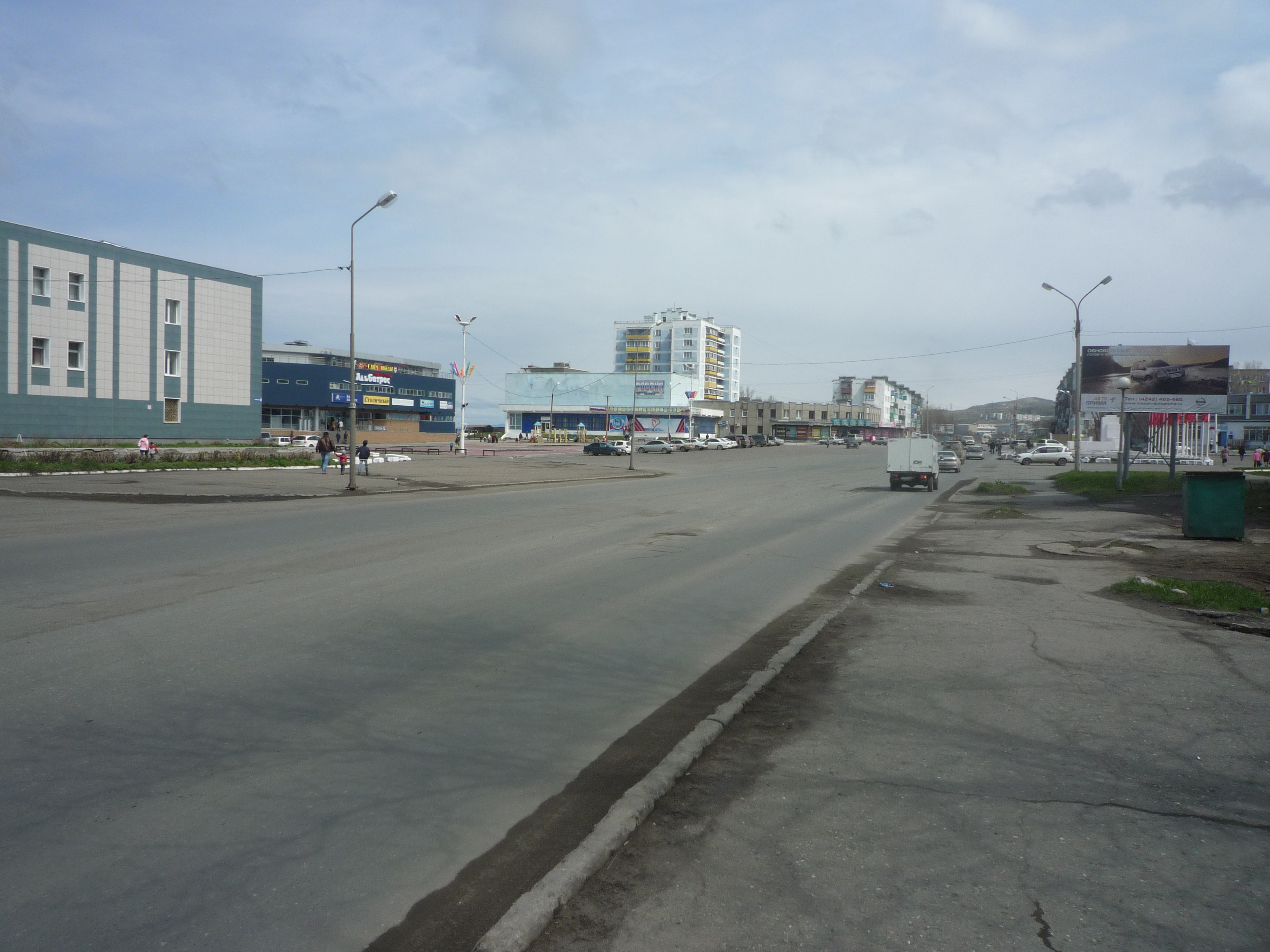 Центр Холмска